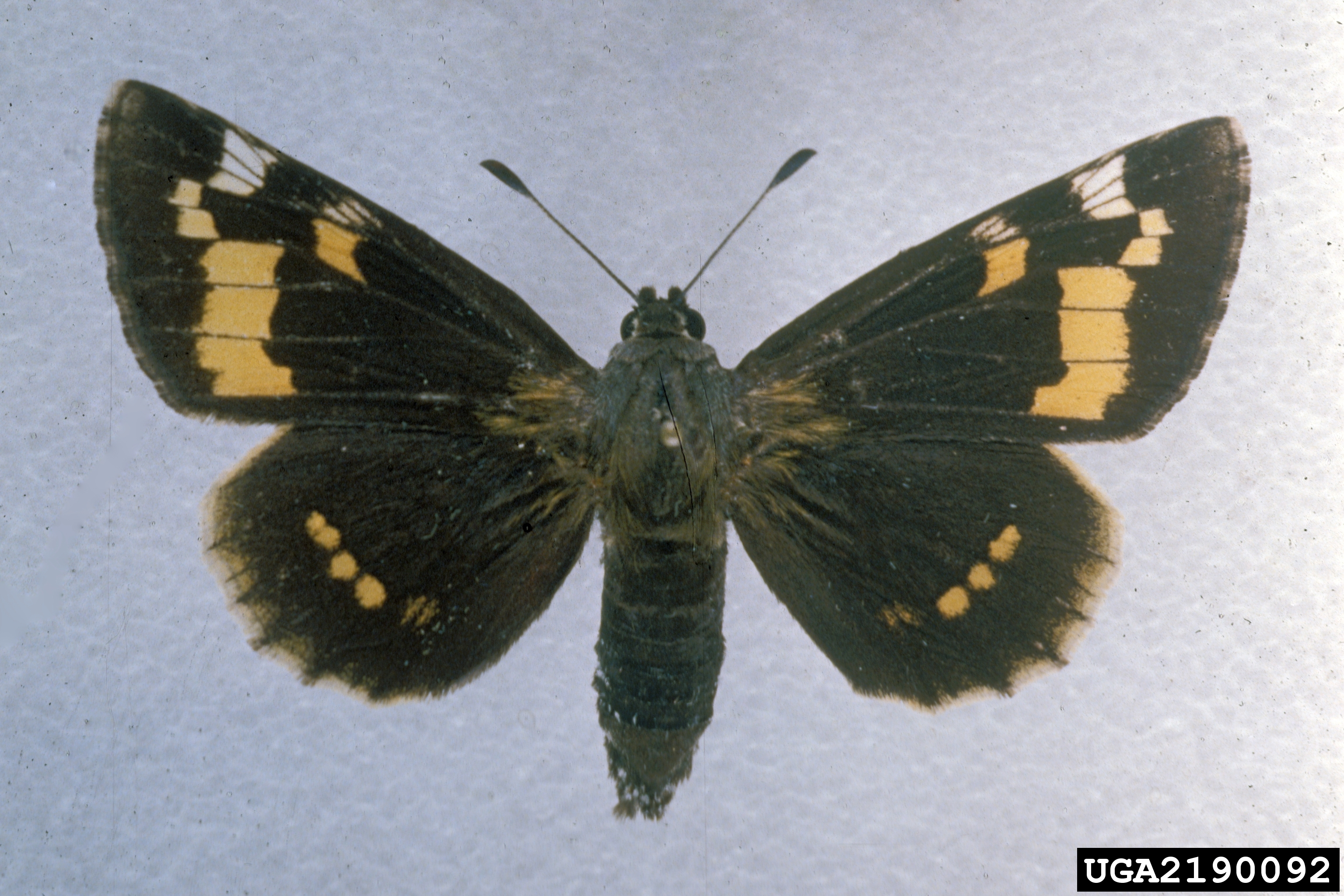 Megathymus yuccae. Lauderdale County, Savoy, Florida, United States.